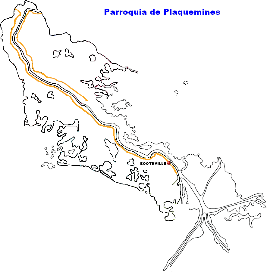 Boothville Map Locator